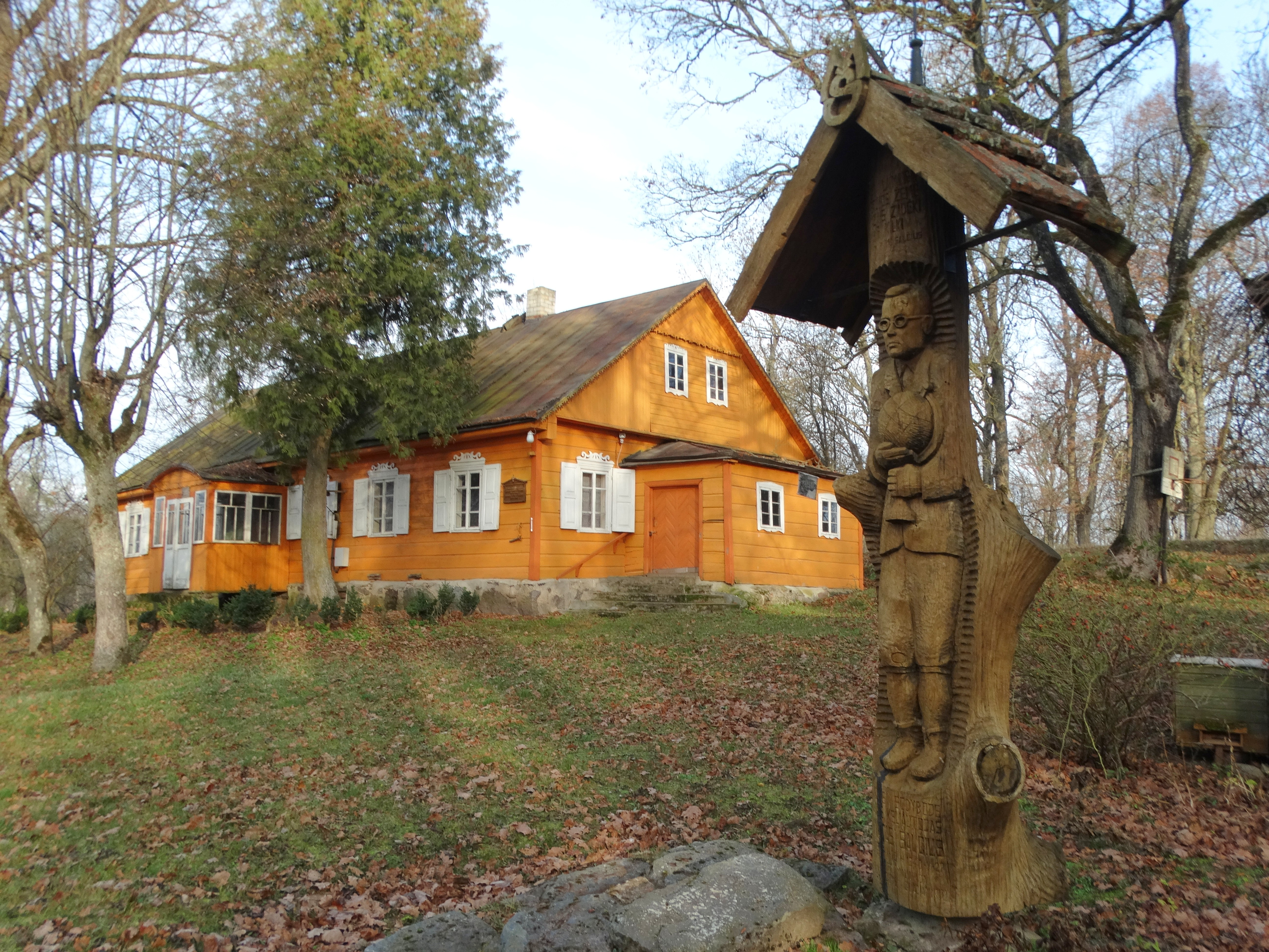 Native estate of Matas and Petras Šalčius, Čiudiškiai, Prienai district, Lithuania